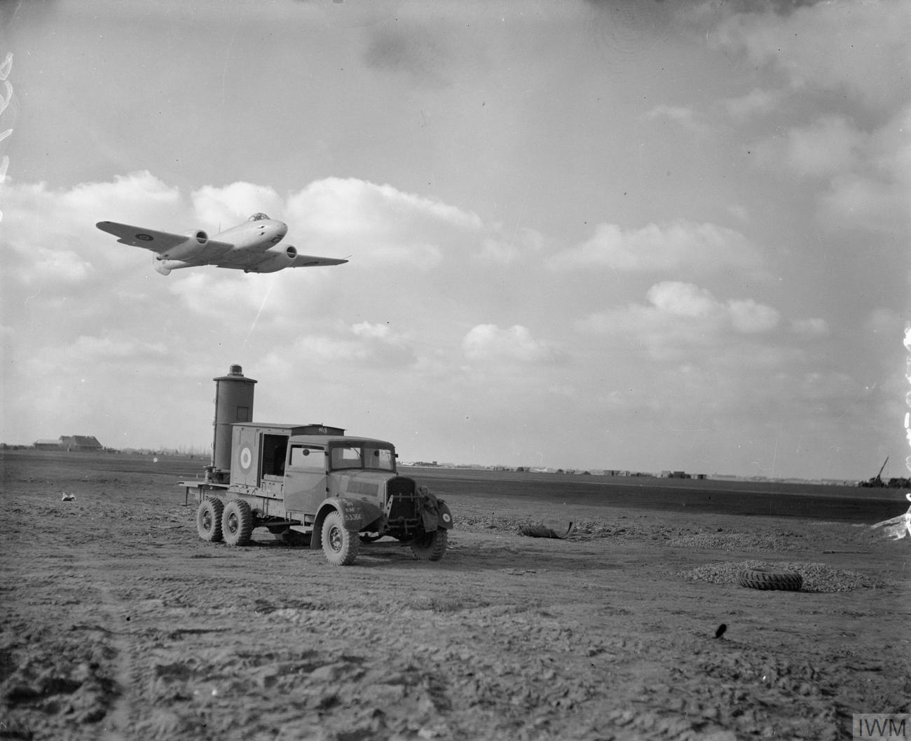 IWM caption : A Gloster Meteor F Mark III of No. 616 Squadron RAF Detachment, takes off from B58/Melsbroek, Belgium, shortly after joining No. 84 Group of 2nd TAF for air defence purposes. In the foreground a mobile Chance light stands parked by the main runway.